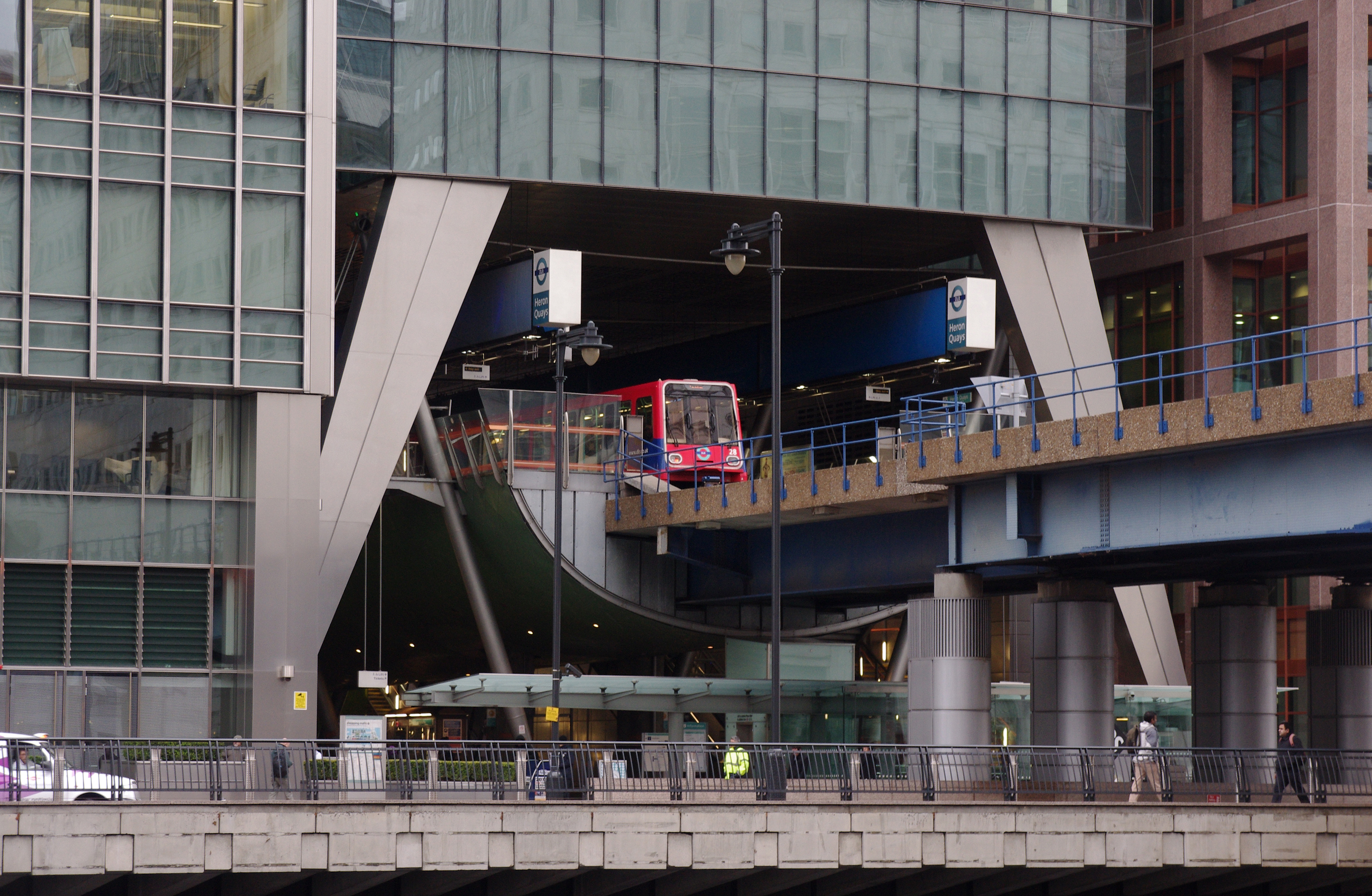 Heron Quays DLR station.